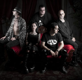 This is an official image of the band Lestat used for advertising in 2012.